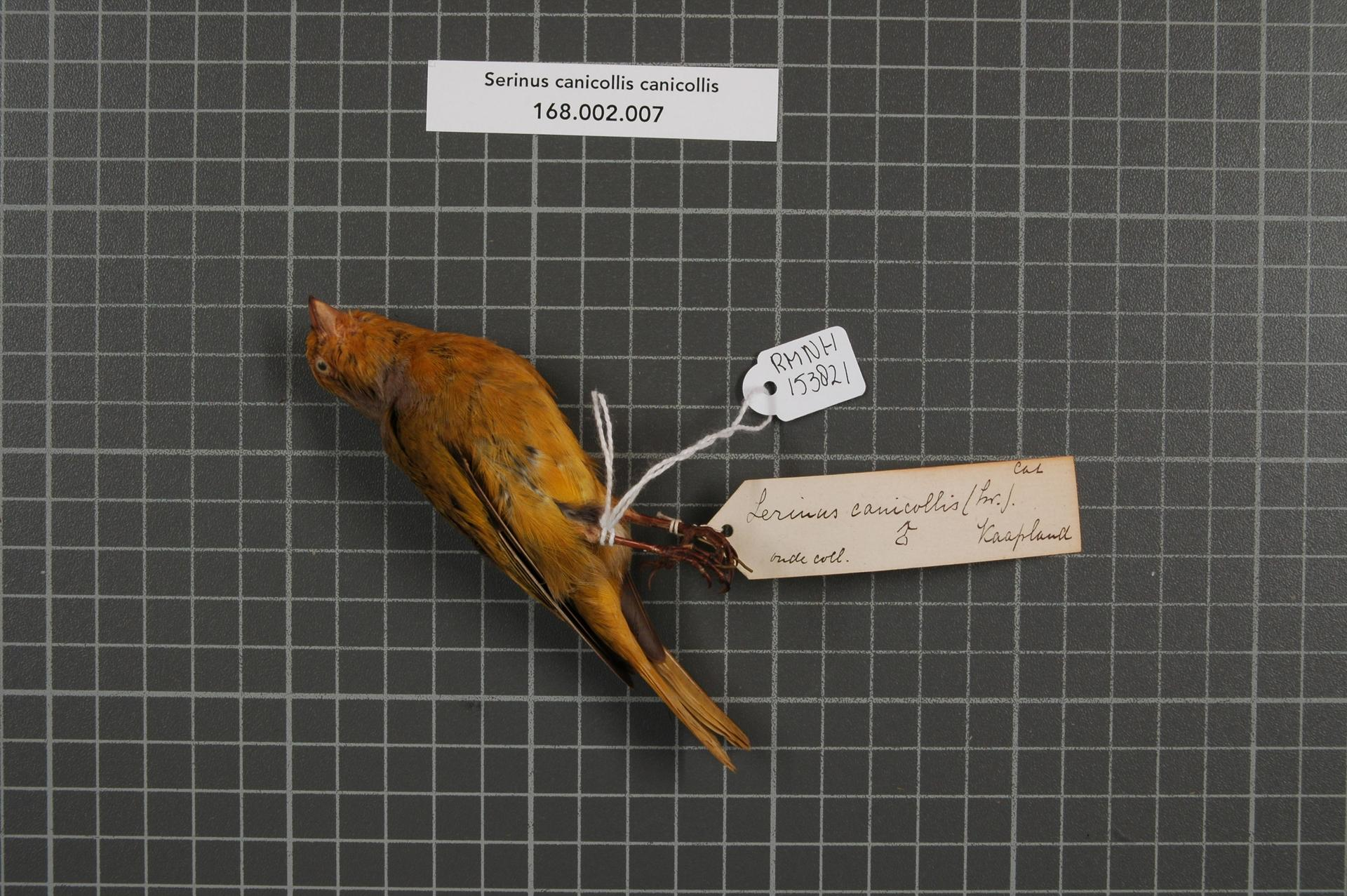 Serinus canicollis canicollis (Swainson, 1838)